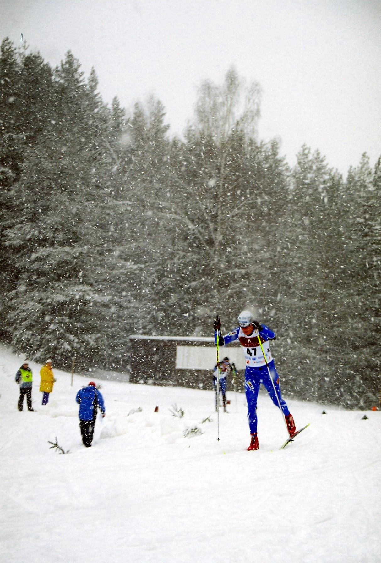 FIS World Cup Cross Country - 2007 in Otepää, Estonia Women's Classical 10 km Petra Majdic